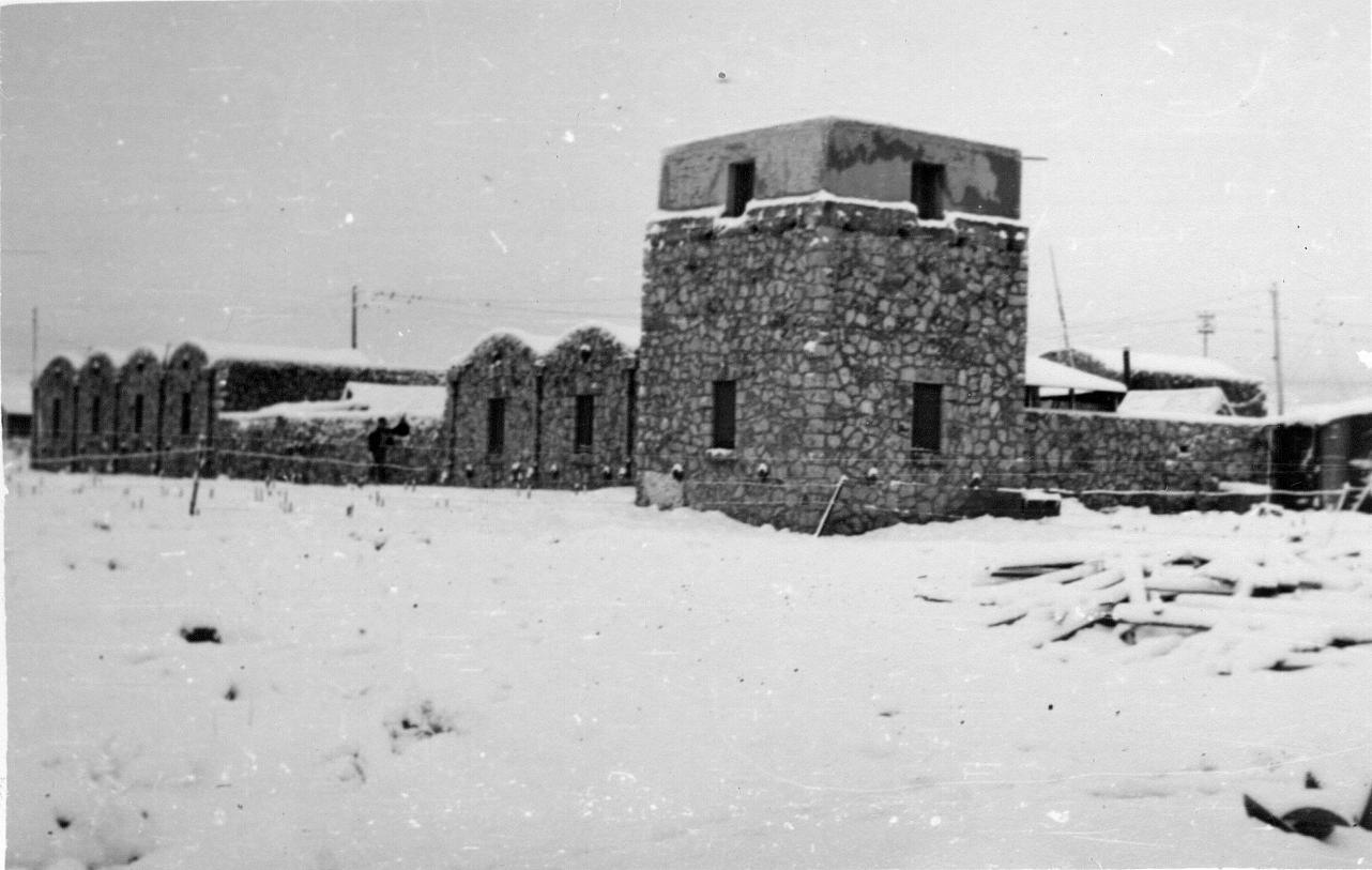 Architecture of Israel